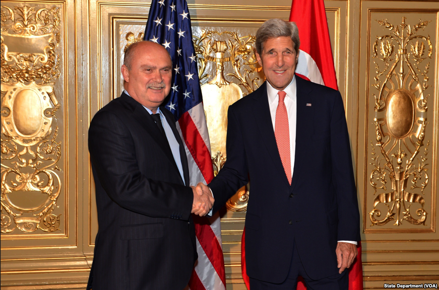 Turkish Foreign Minister Feridun Sinirlioğlu visiting US Secretary of State John Kerry in September 2015